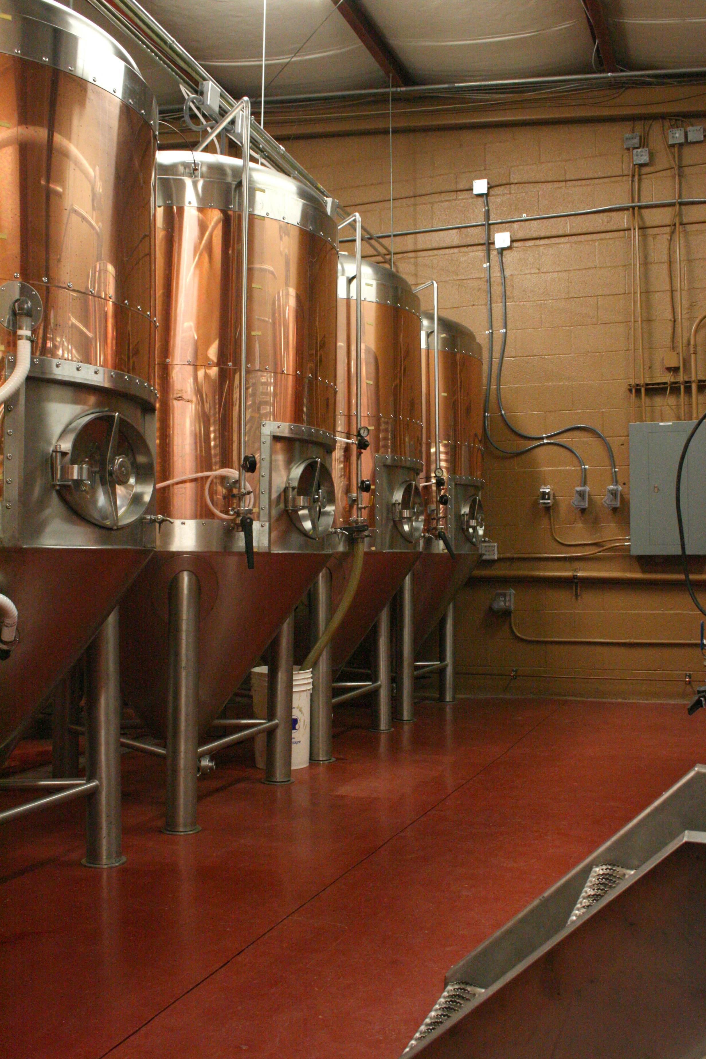 Fermenters at the LoneRider Brewery in Raleigh, North Carolina. Each has a capacity of 565 gallons (18.23 barrels).